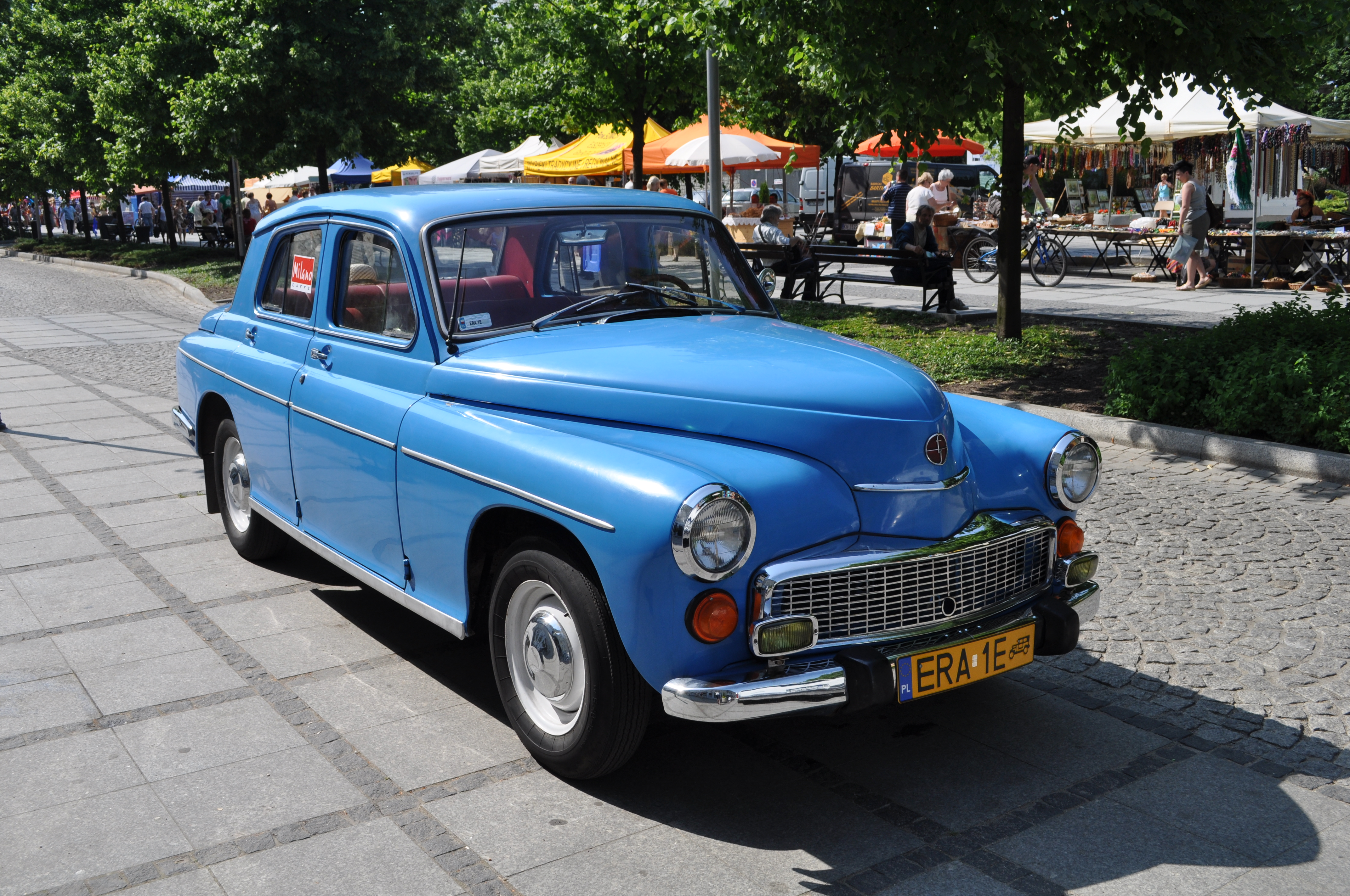 Blue FSO Warszawa 203, 204, 223 or 224 during Industriada 2010.